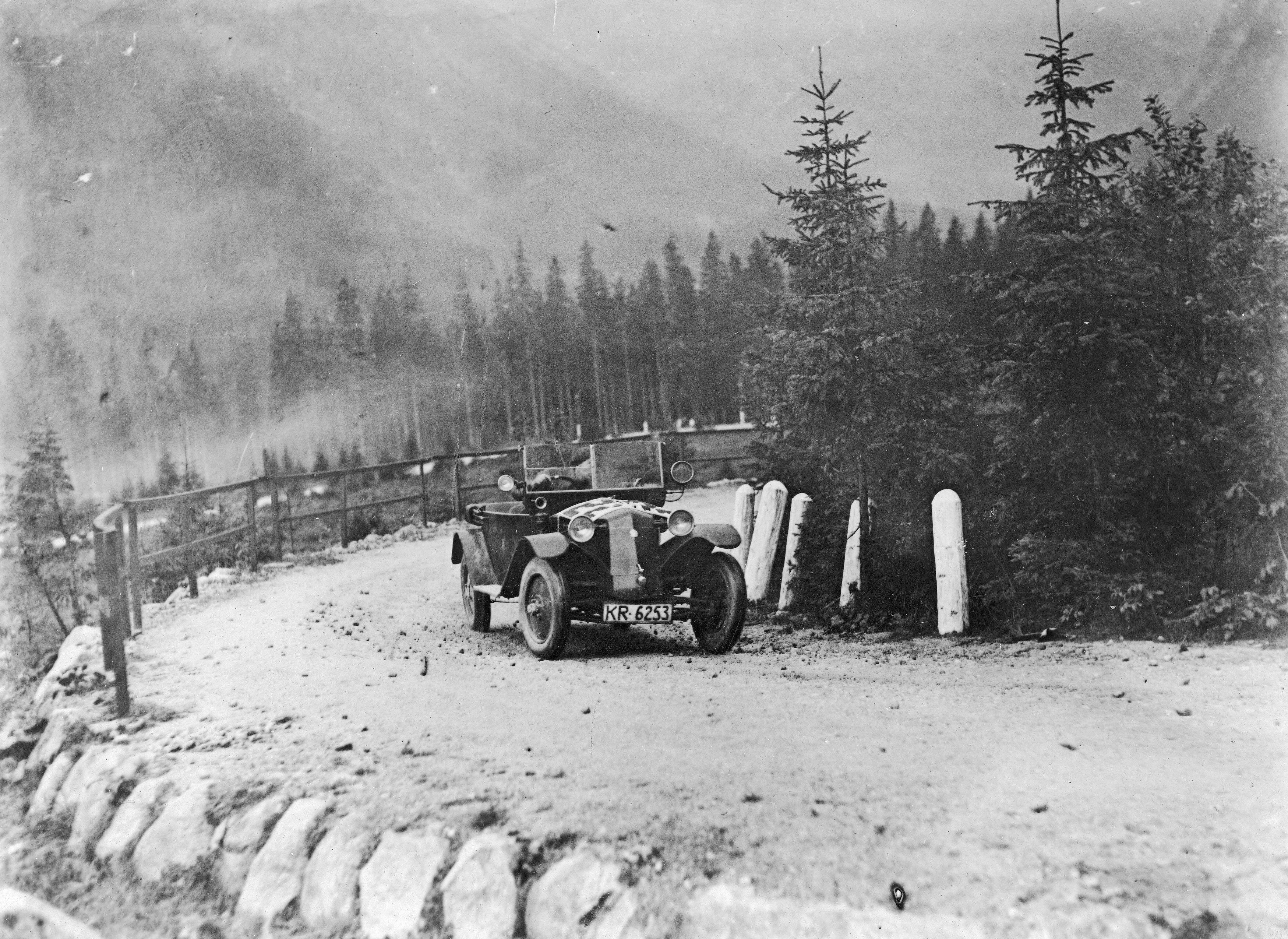 International Tatra Rally, Poland, unknown edition. Tatra car (Kraków license plates).